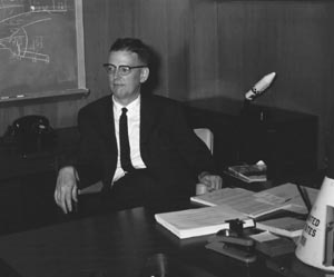 Jim Chamberlin at NASA